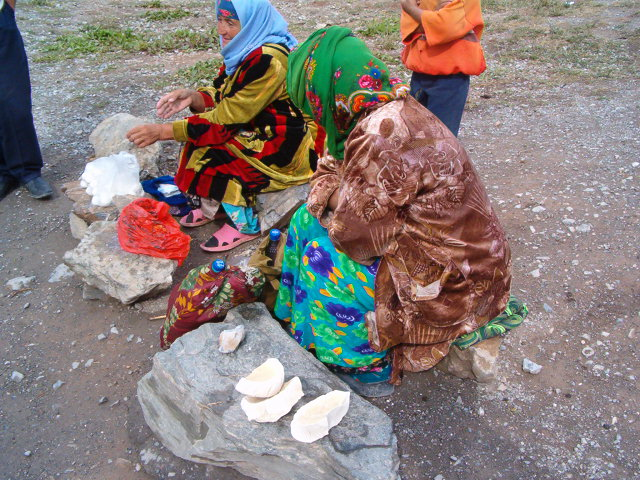 Qurut made with dried kefir (milk) very salty. Tajikistan